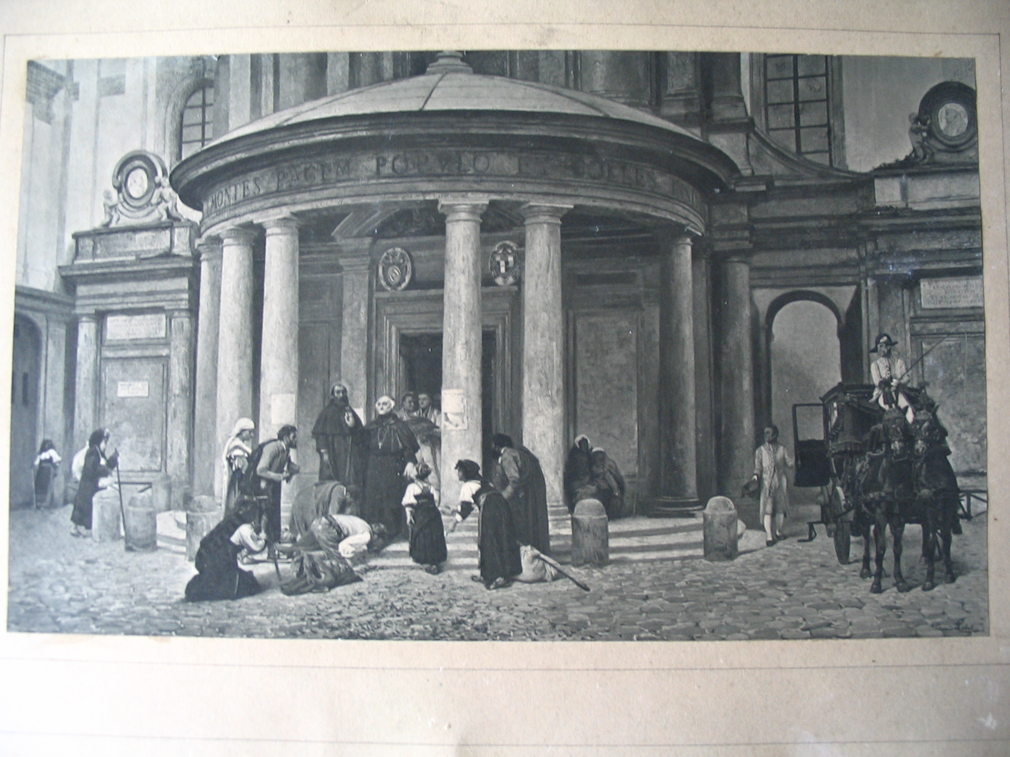 Painting by Edmond LEBEL (1834-1908) Oil on canvass display at Paris "Salon", 1877, 1,6 M long, 1,3 m in heigth Displayed at the Universal Exhibition in Sydney/Australia & Melbourne.